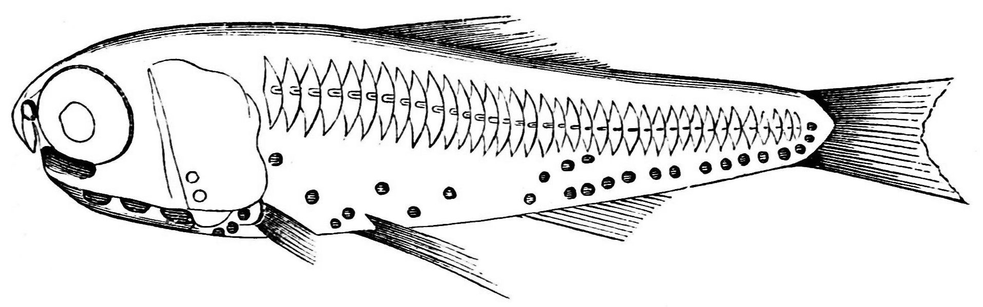 Luminous organs in the ocular region of the Scopelus rafinesquii (=Diaphus rafinesquii)